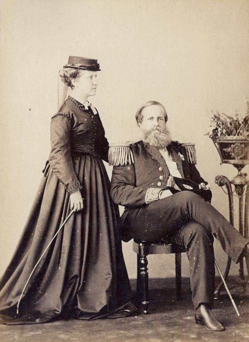 Isabel, Princess Imperial (1846-1921) and Dom Pedro II, Emperor of Brazil (1825-1891) -dressed as an Admiral-, 1870.